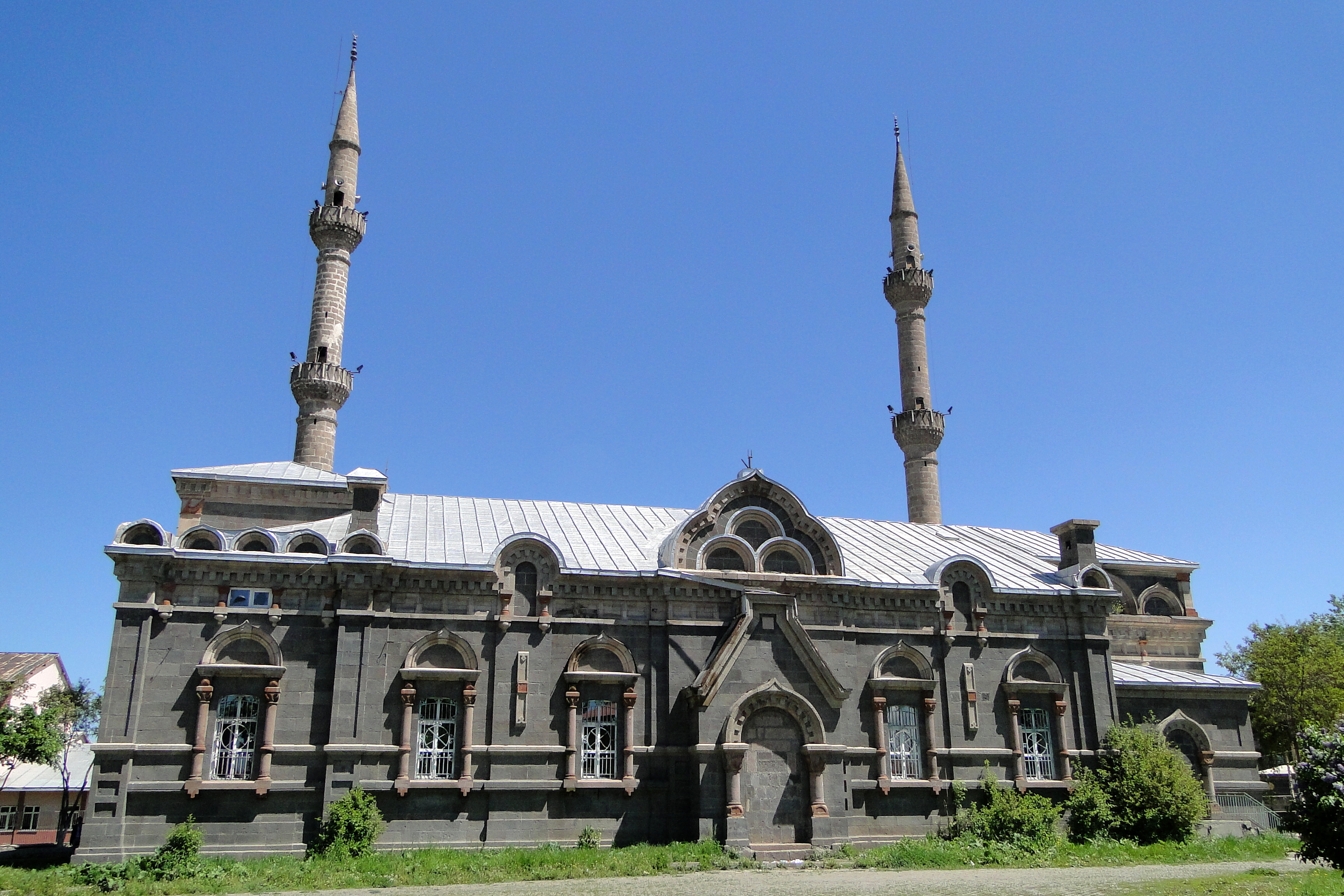 Fethiye Mosque - Built as Barracks for Cossacks in Tribute to Alexander Nevsky - Kars - Russia - 01